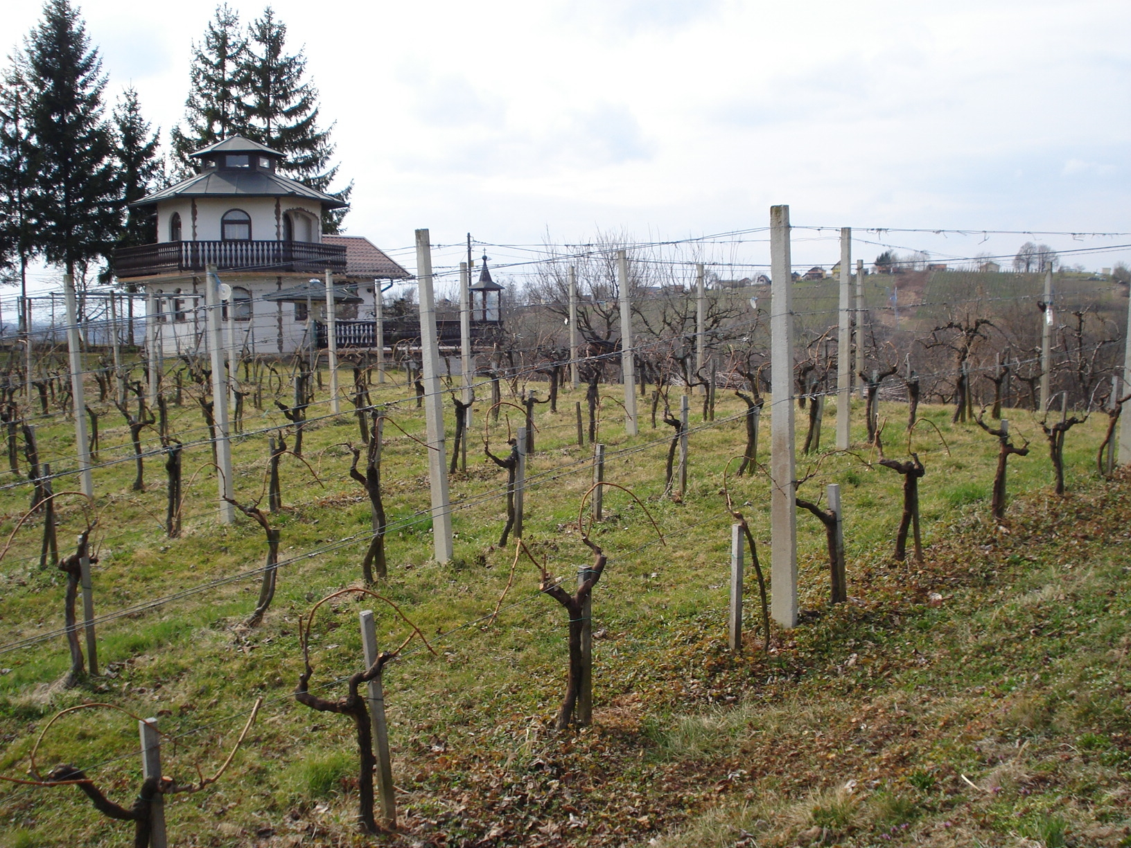 "Međimurske gorice" - A vineyard in Jurovčak village in Međimurje wine subregion, northern Croatia, in early springtimeHrvatski: "Međimurske gorice" - Vinograd u selu Jurovčak u Međimurskom vinogorju (podregiji), sjeverna Hrvatska, u rano proljeće